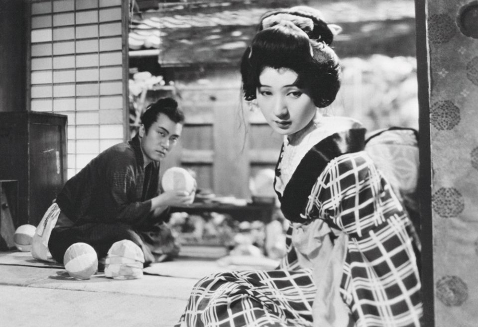 Chōjūrō Kawarasaki and Takako Misaki in Ninjō kamifūsen (1937)